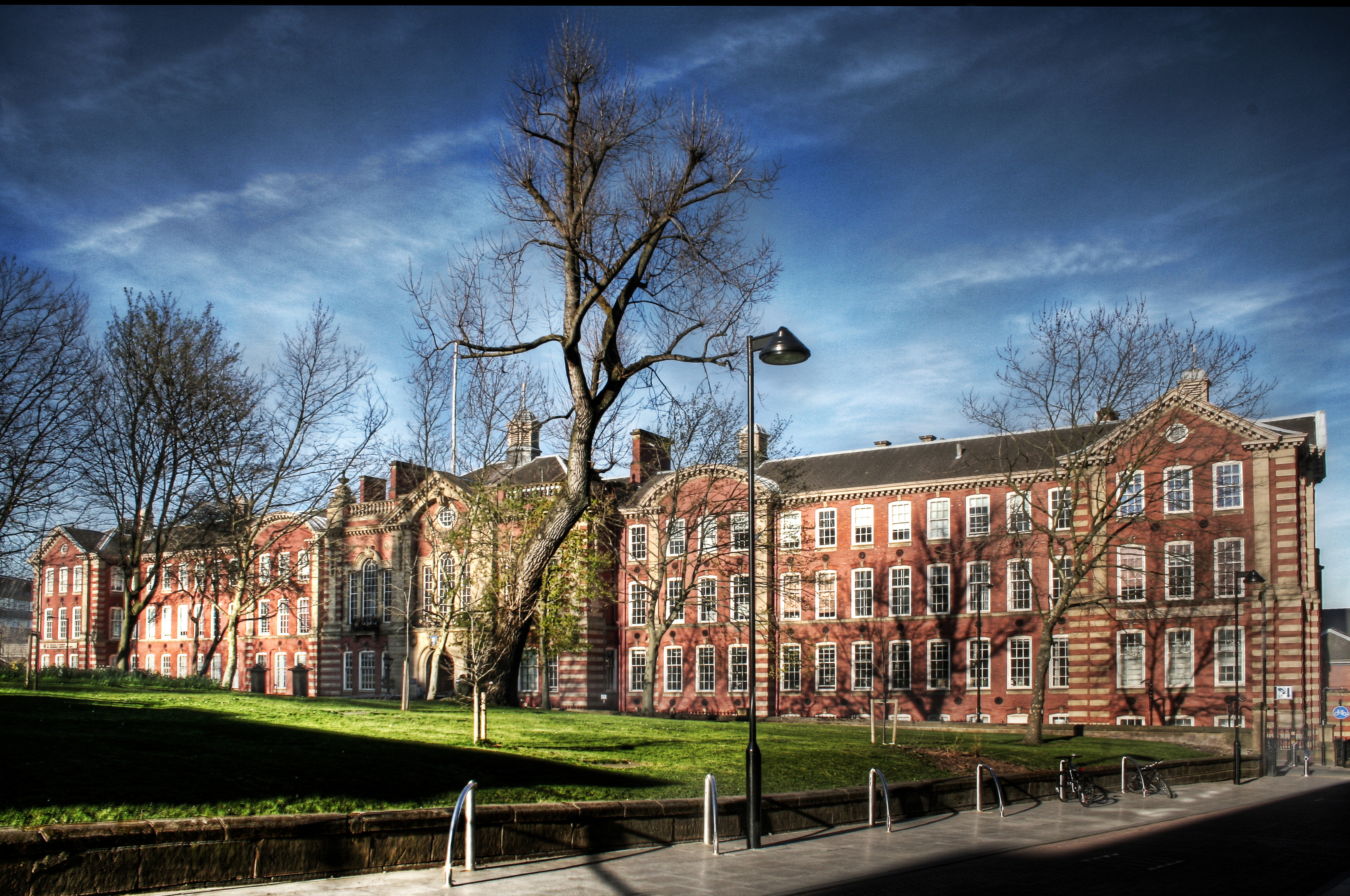 The Sir Frederick Mappin Building, Mappin Street, University of Sheffield, England (3453 x 2292 px, 2,996,049 bytes)